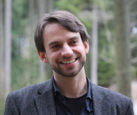 AndreasAnton.jpg